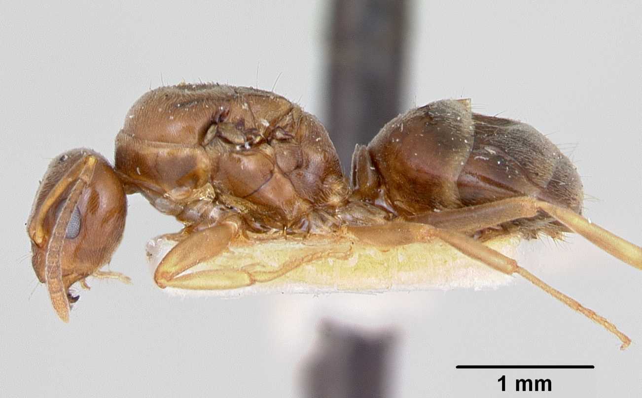 Profile view of ant Prolasius advenus specimen casent0172948.